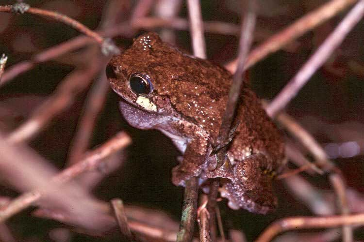 Cope's (Southern) Gray Treefrog (Hyla chrysoscelis)